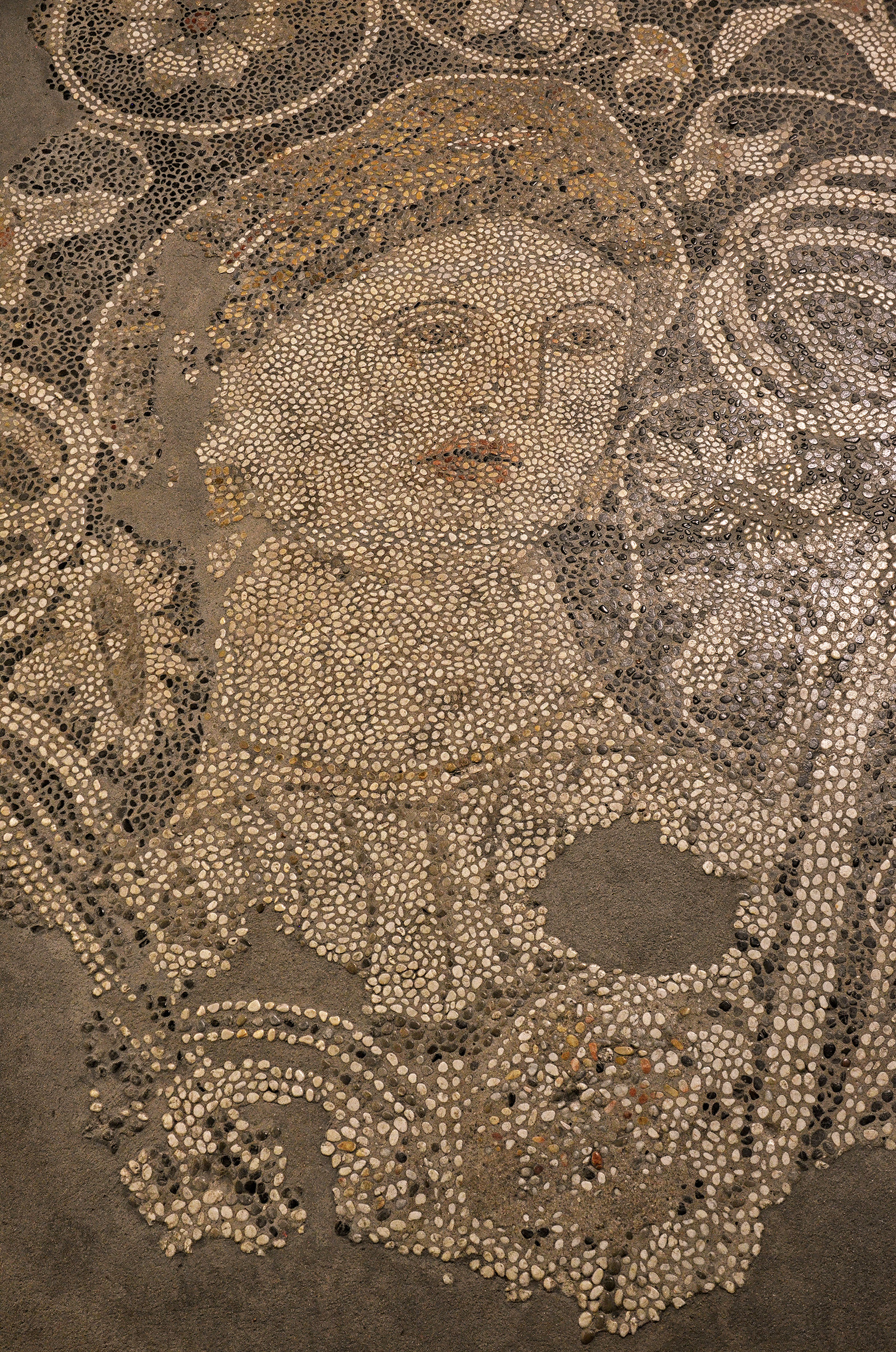 Mosaic called "The Beauty of Durrës" ("Bukuroshja e Durrësit") from Dyrrhachium, 4th century BC in the National Museum of History in Tirana, Albania